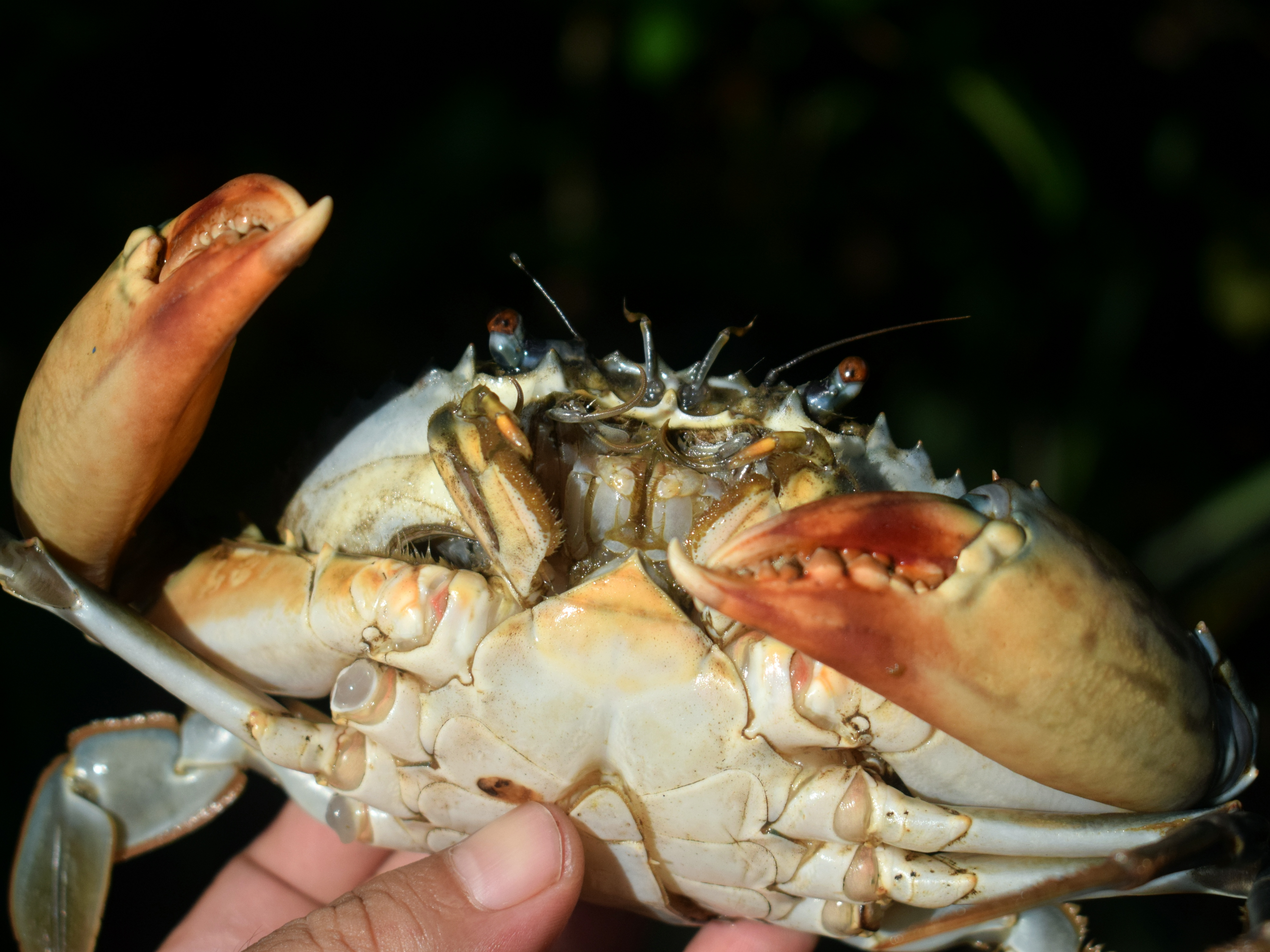 Green mangrove crab Scylla paramamosain; male, 104.7mm CW, mouth region. From Jakarta Bay (Segara Jaya, near Marunda), West Java, Indonesia.